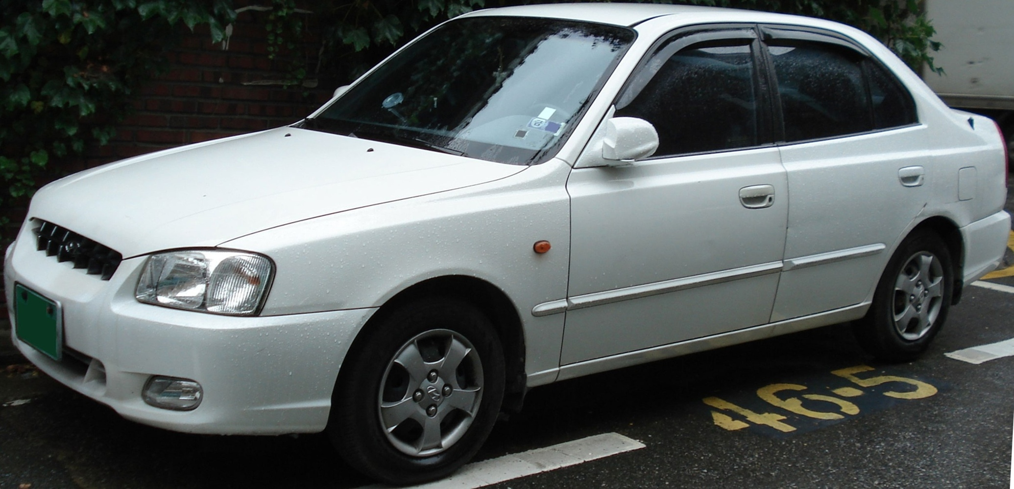 Hyundai Verna